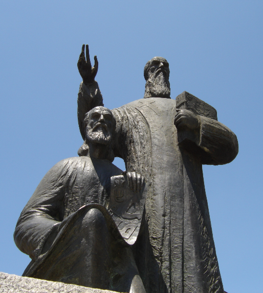 Kiril i Metodij spomenik